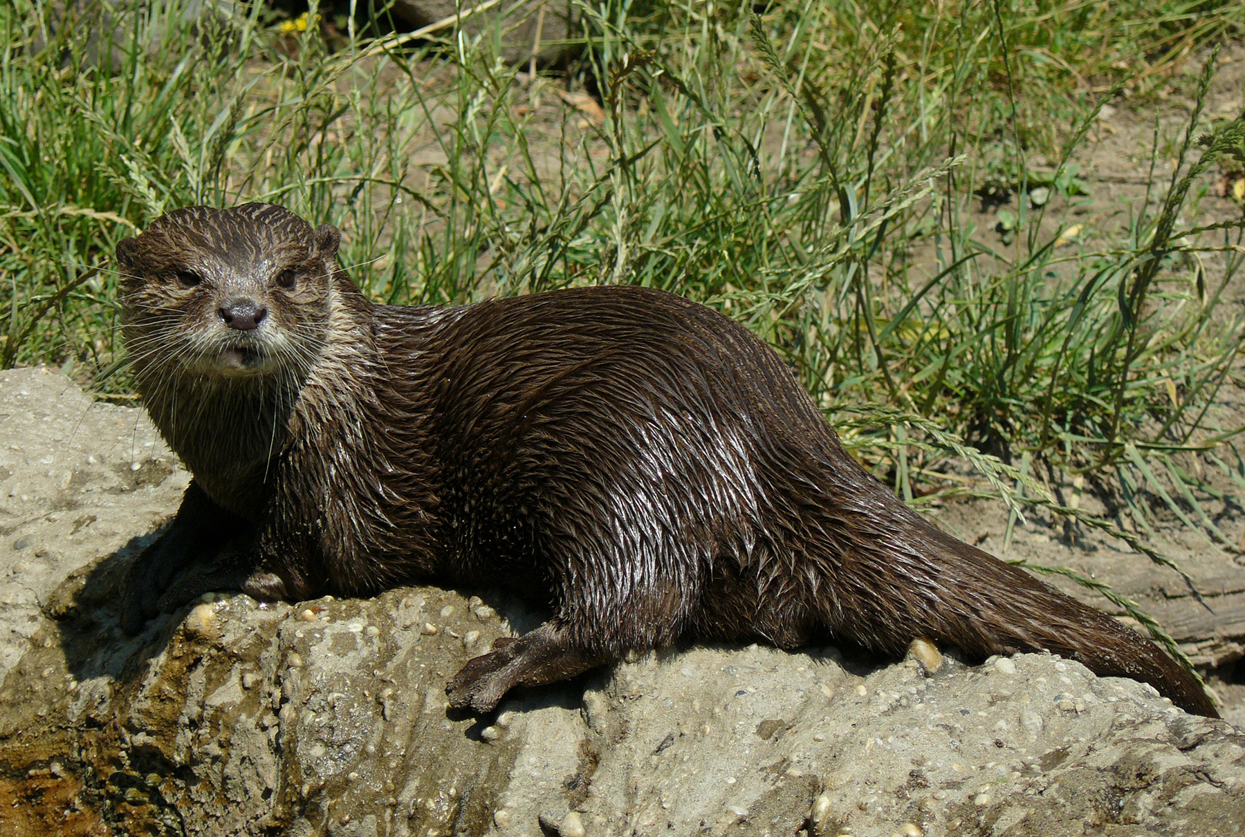 Aonix Cinerea - image was taken in Budapest Zoo, Hungary.